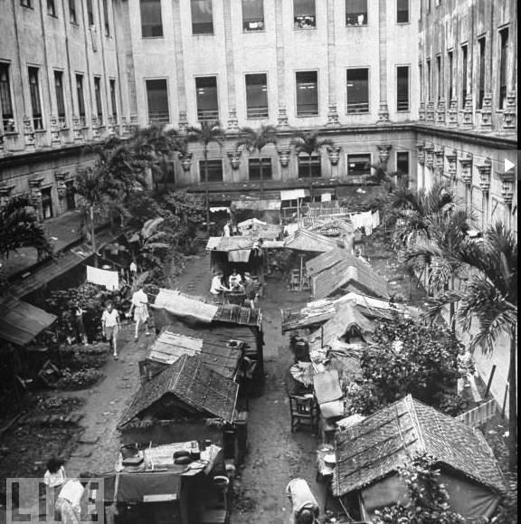 World War II — Japanese Santo Tomas Internment Center, Manila (1945). Many of the Allie internees have built huts, called shanties, to escape crowded conditions in the dormitories